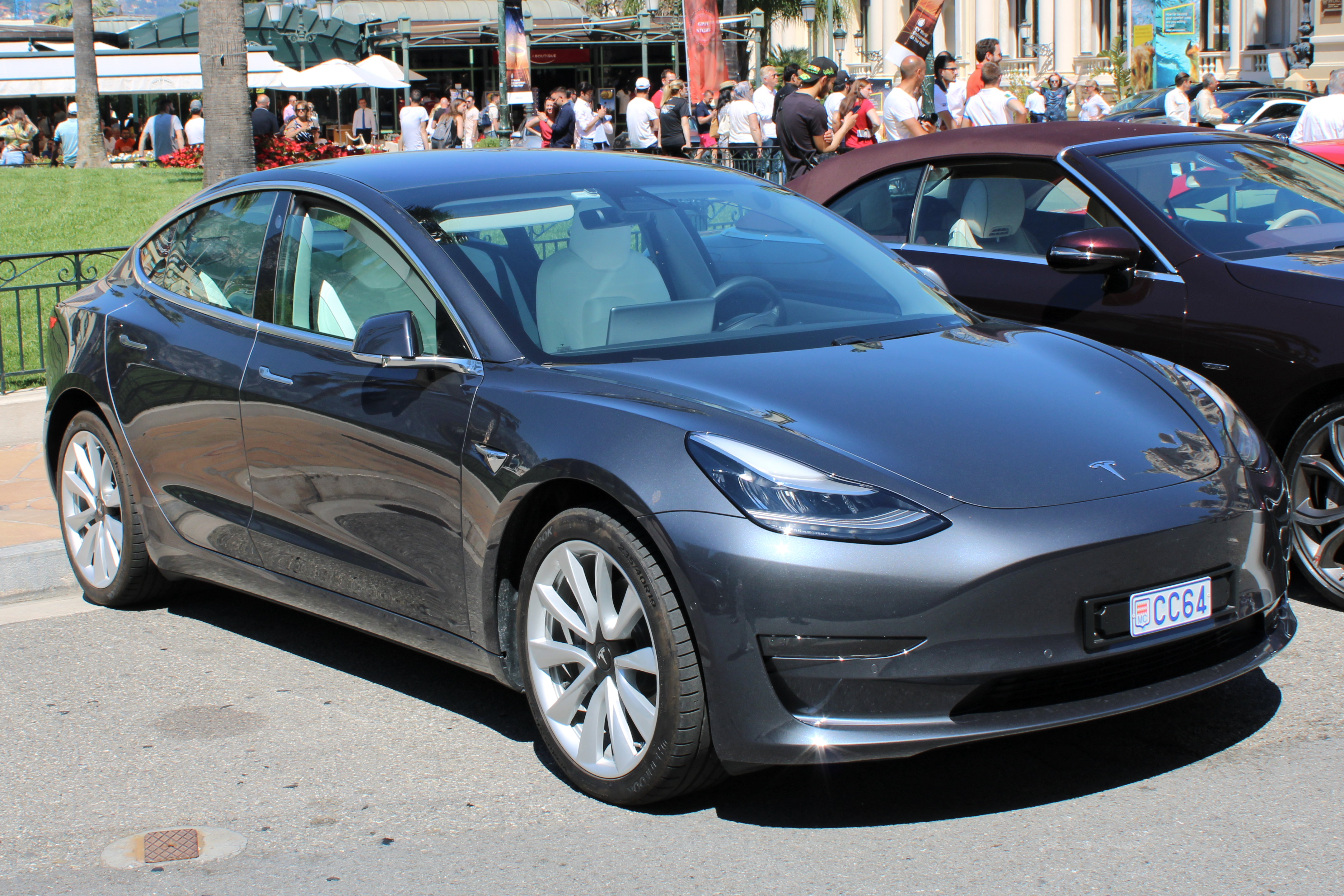 Tesla Model 3 in Monaco